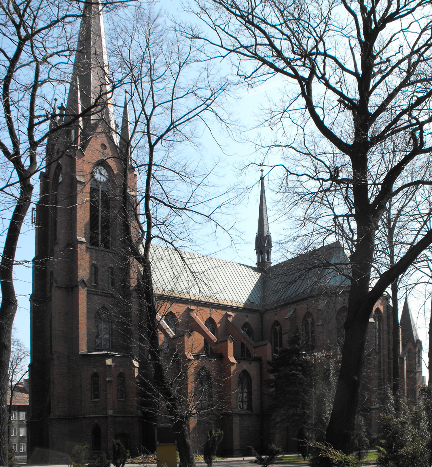 Church of Saint Lawrence in Mikulczyce